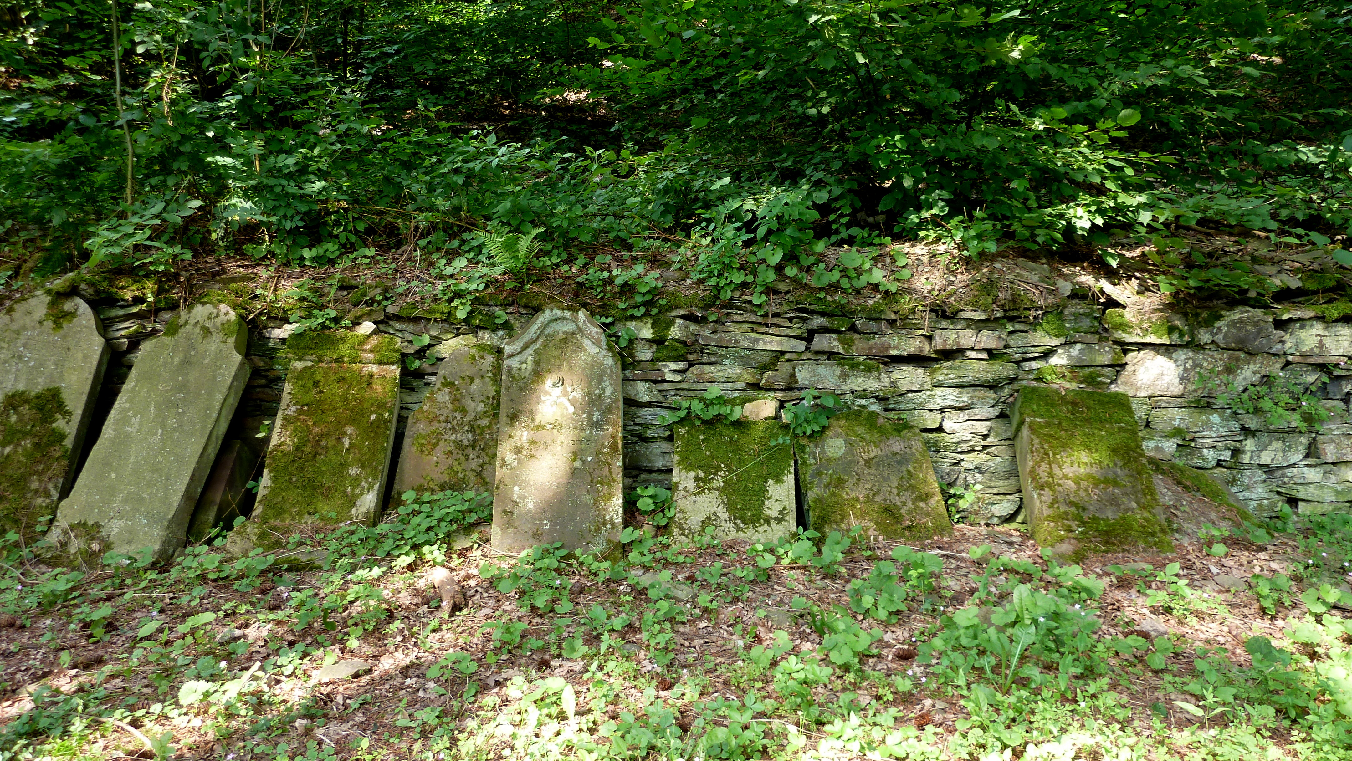 Jewish cemetary in Nassau (Lahn)